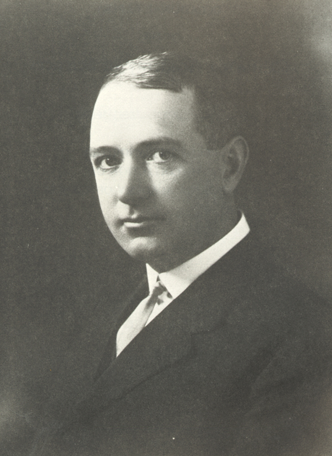 Dudley Moulton (1878–1951), U.S. entomologist specialist of thysanoptera